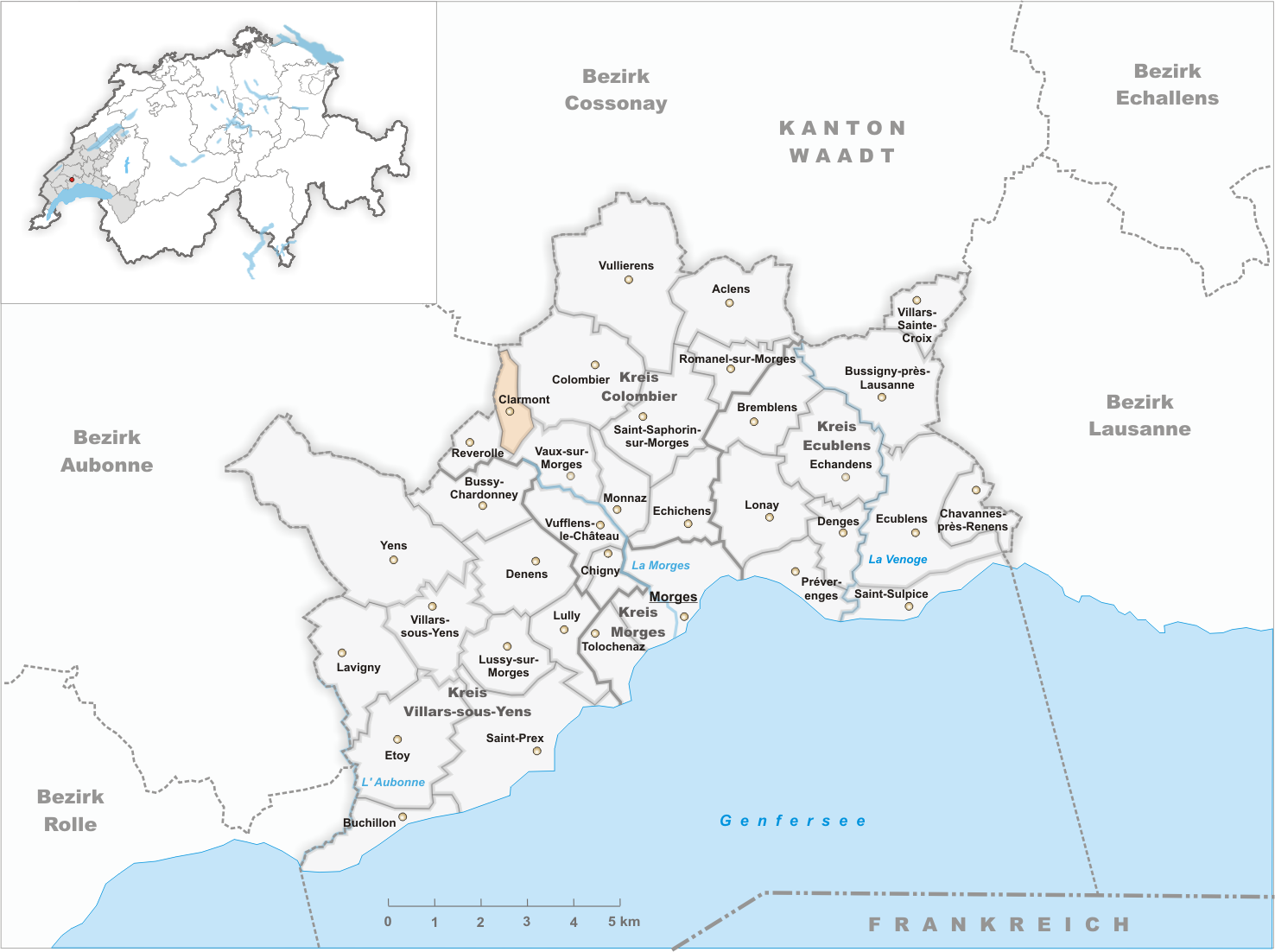 Municipality Clarmont